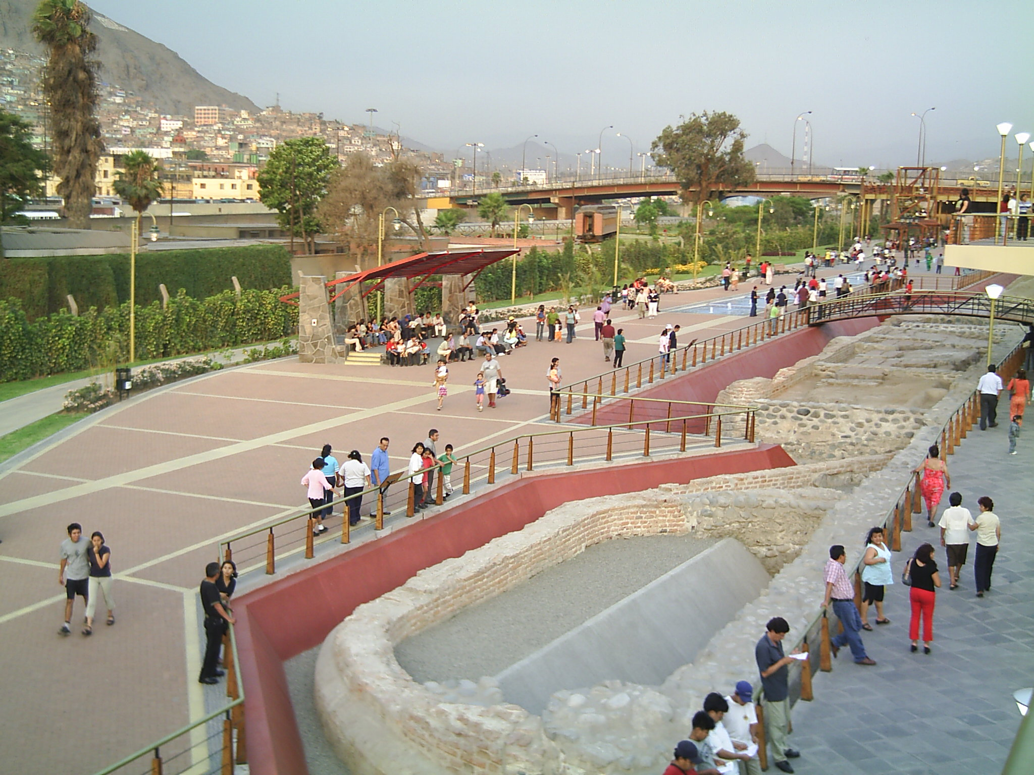 Lima City Walls: Image of city walls built on Lima, at the bottom the remaining walls.